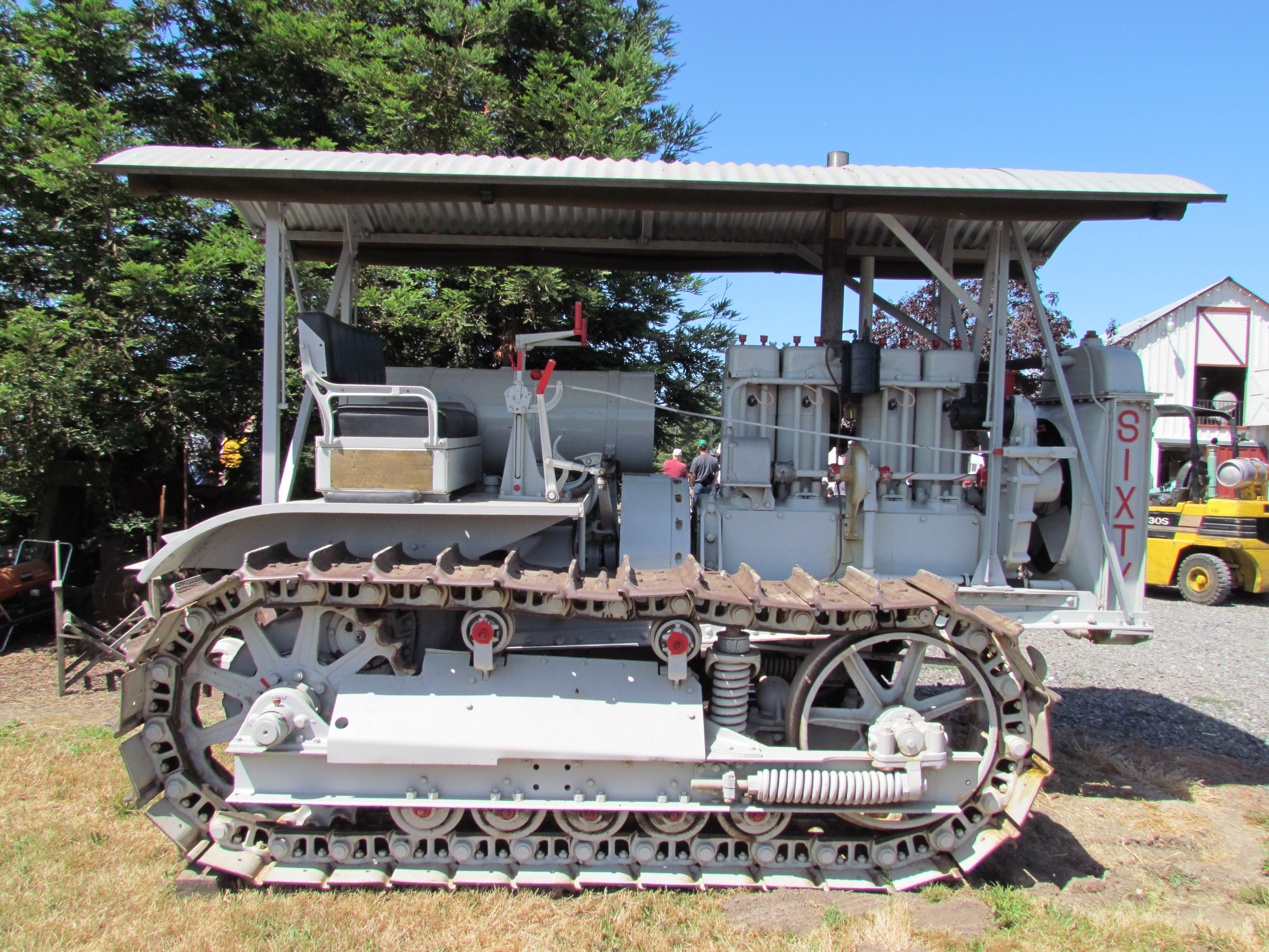 1928 Caterpillar 60 Pengrove Power and Implement Museum, Penngrove, CA, July 9, 2011